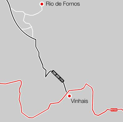 I graphically edited this picture myself. Wikipedia has full rights to this image.